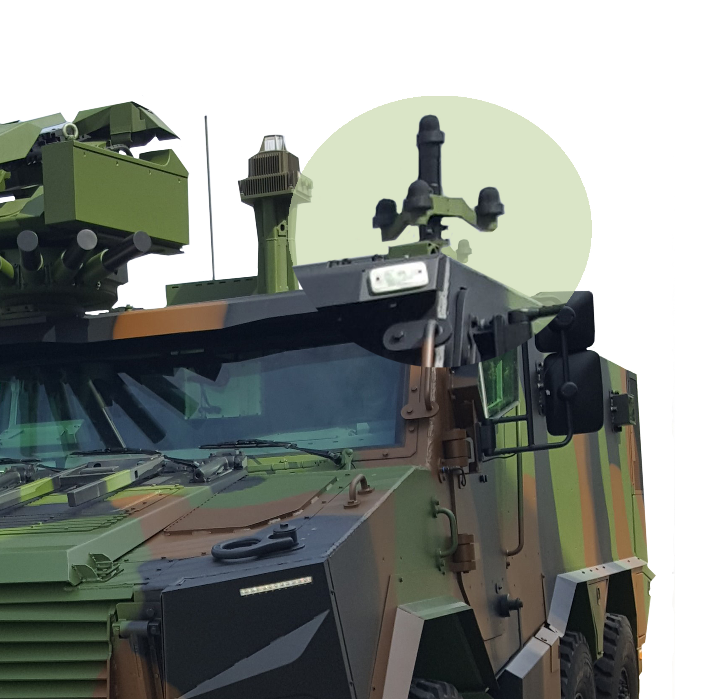 PILAR V | Acoustic Gunshot detector essential sensor of the vehicle protection system for an advanced situational awareness and for a greater force protection.